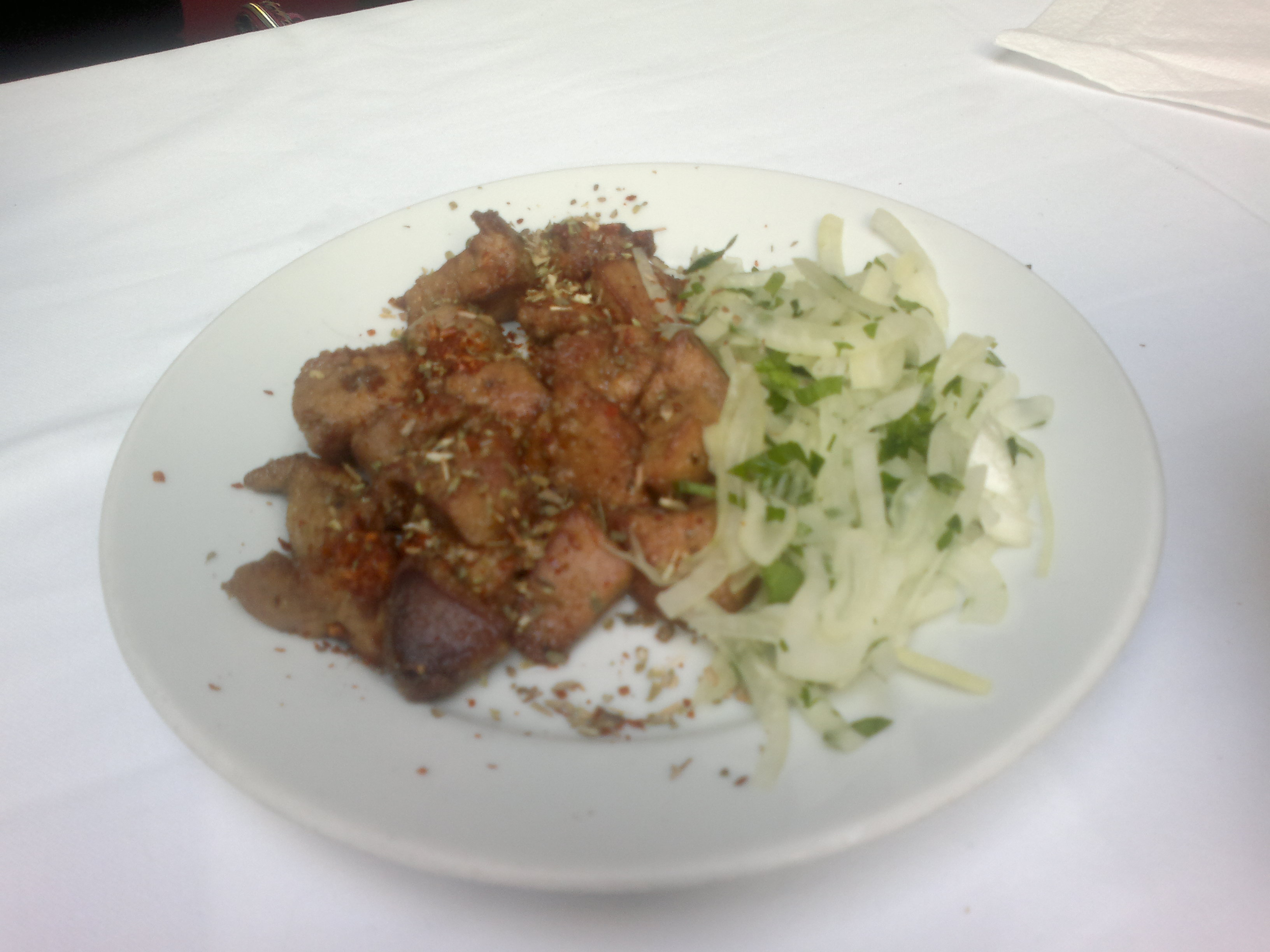 Arnavut Ciğeri or literally Albanian liver is a Turkish meze